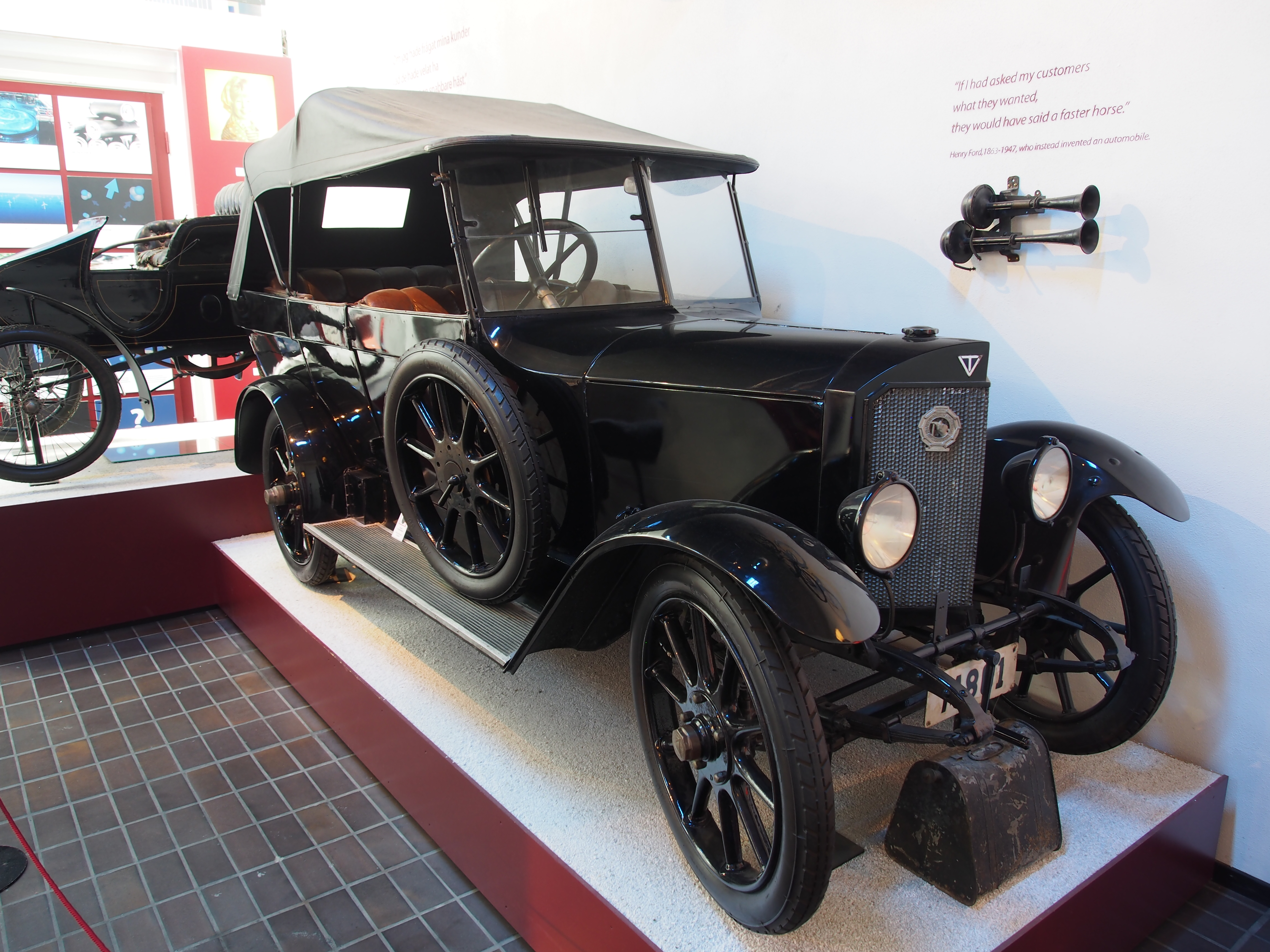 Photographed at Malmö Museer Teknikens och sjöfartens hus (Science and Maritime House) Malmo, Sweden.